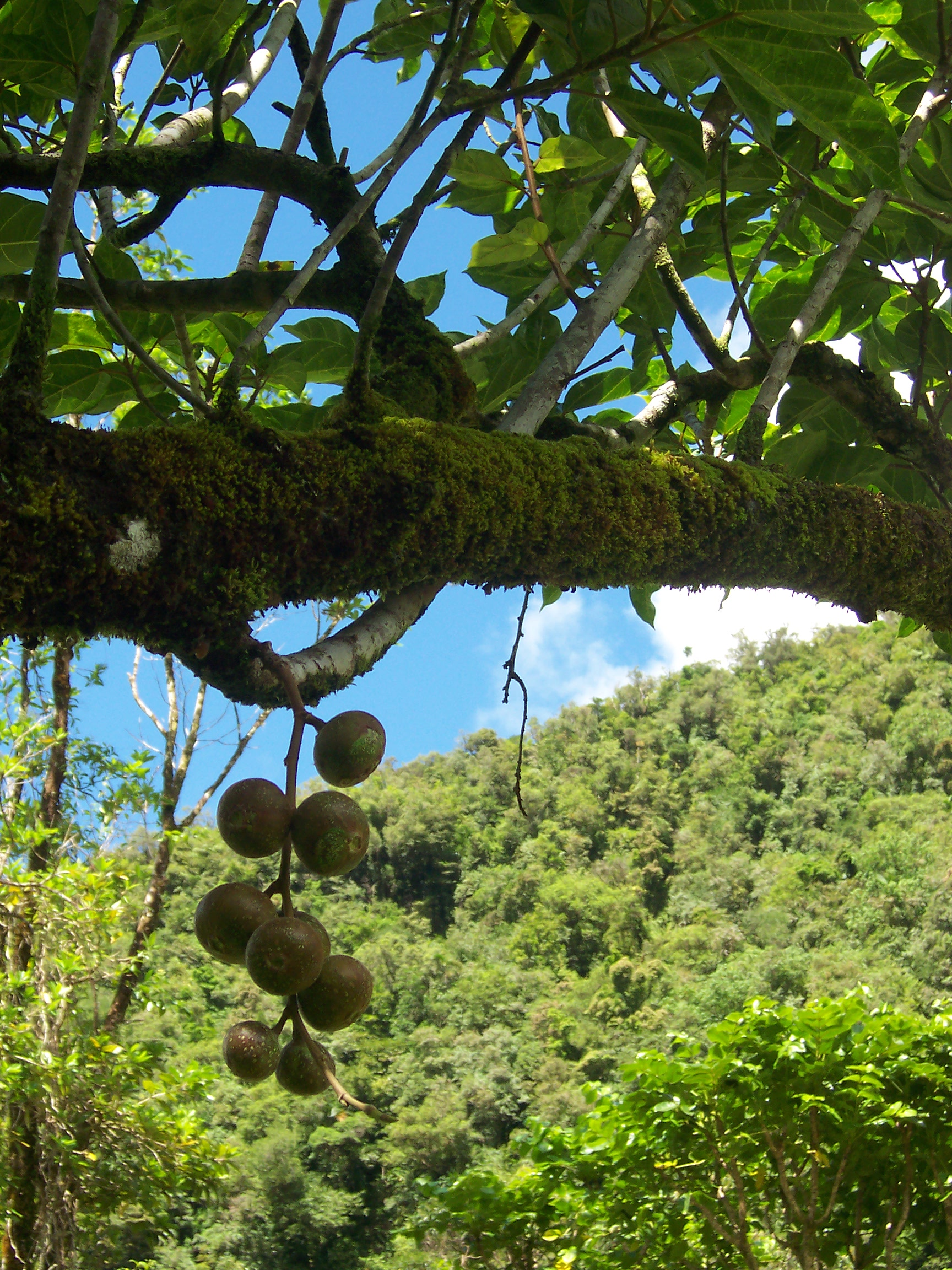 Ficus mauritiana (fruits on an aerial root) (Réunion island)